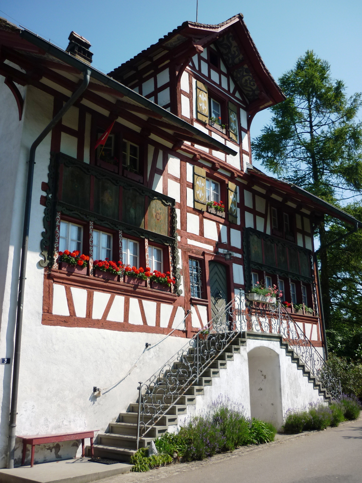 Menzihaus, Hombrechtikon ZH, Switzerland, built in 1733